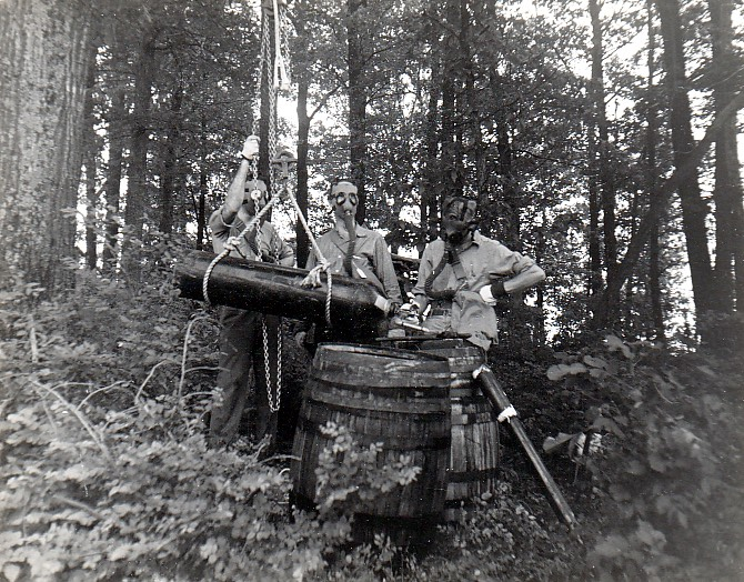 Civilian researchers testing gas masks during World War II as part of their work with the National Defense Research Committee